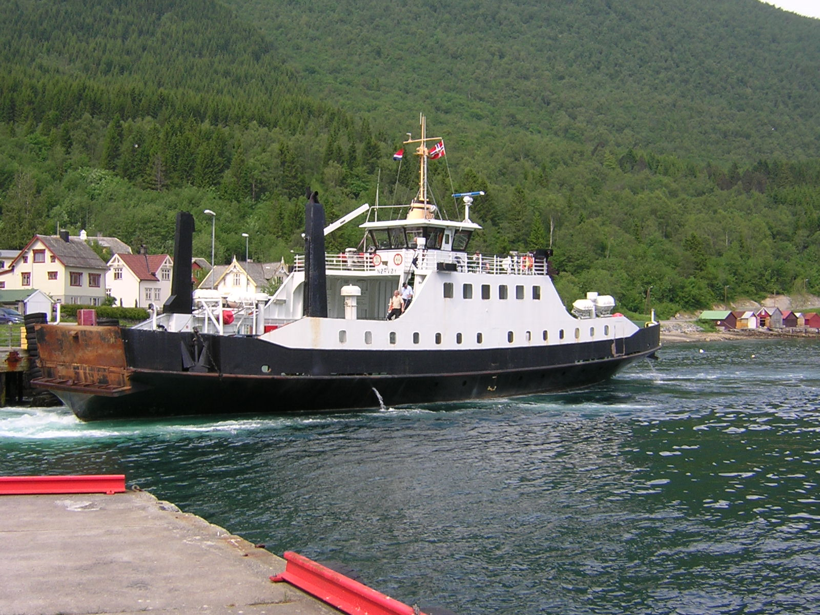 The Local ferry M/F "Nørvøy" on Sæbø, Hjørundfjorden, Norway.